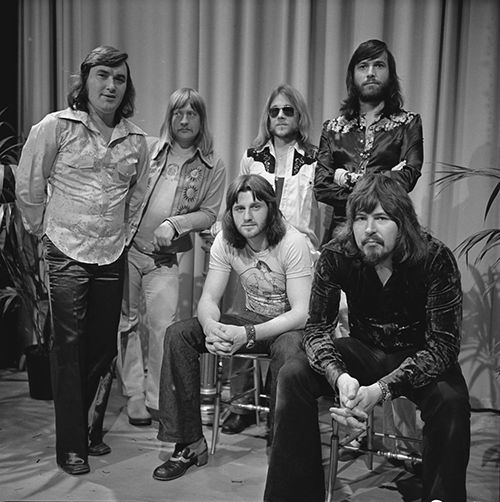 The Cats in AVRO's TopPop (Dutch television show) in 1974